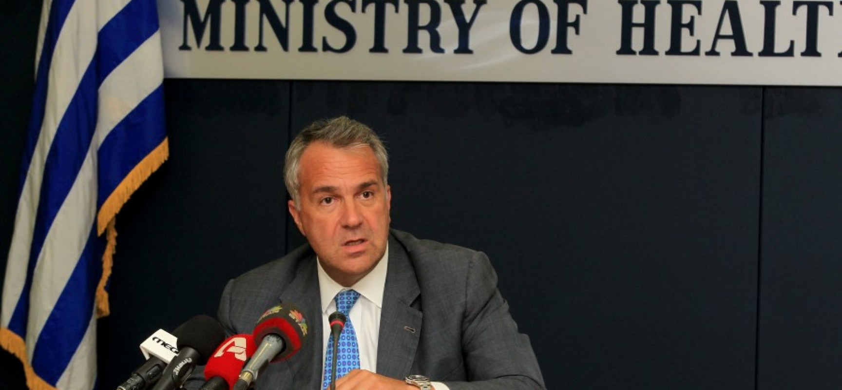 Makis Voridis as Greek minister of Health